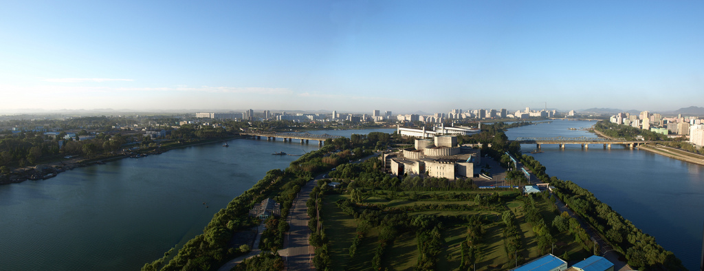 Facing South from Yanggakdo Hotel overlooking Pyongyang international Cinema House and Yanggakdo Football ground.